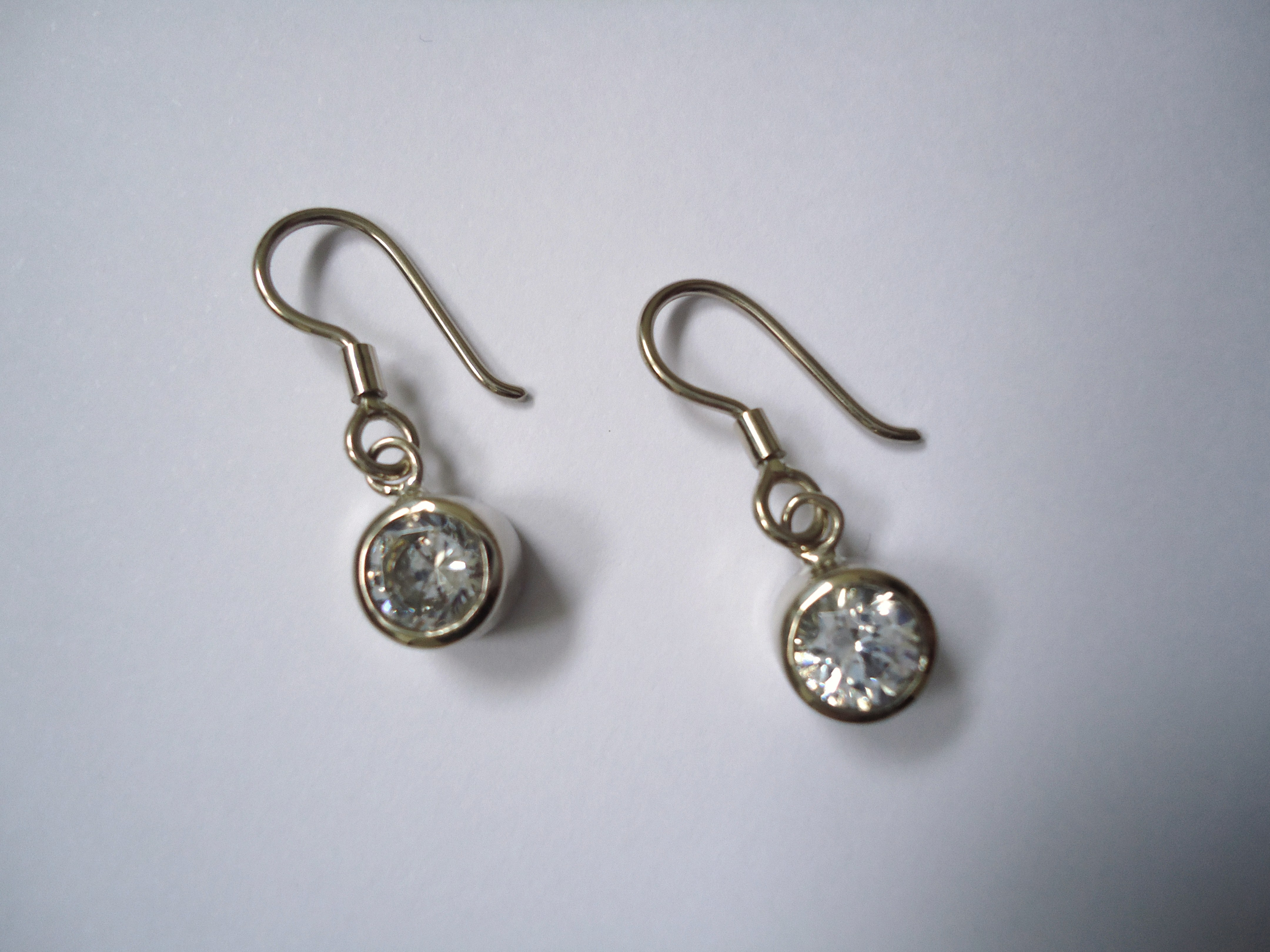 White gold and diamonds earrings. Made by Mauro Cateb, Brazilian jeweler.